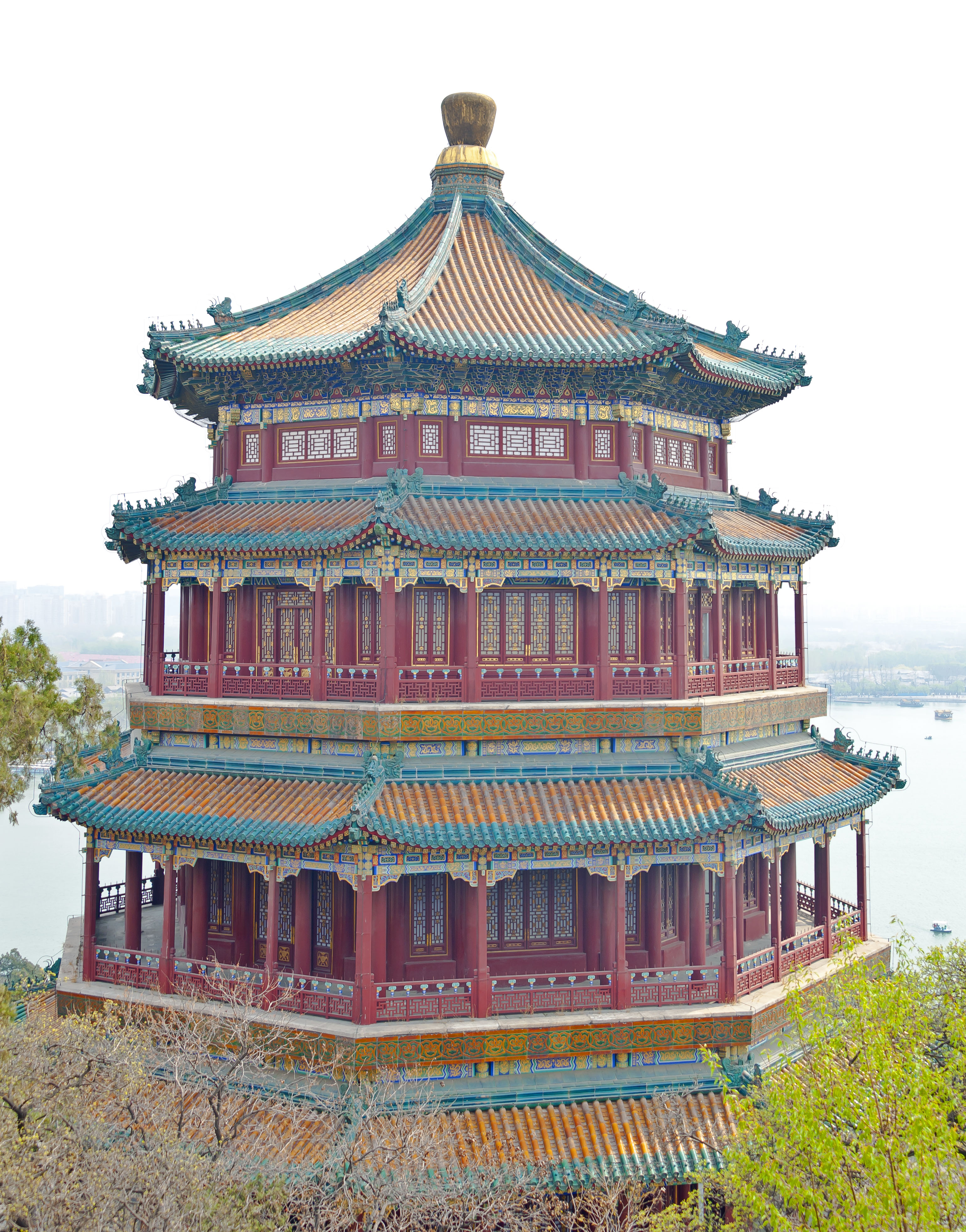 Tower of Buddhist Incense from the lower summit of Longevity Hill at the Summer Palace, Beijing.